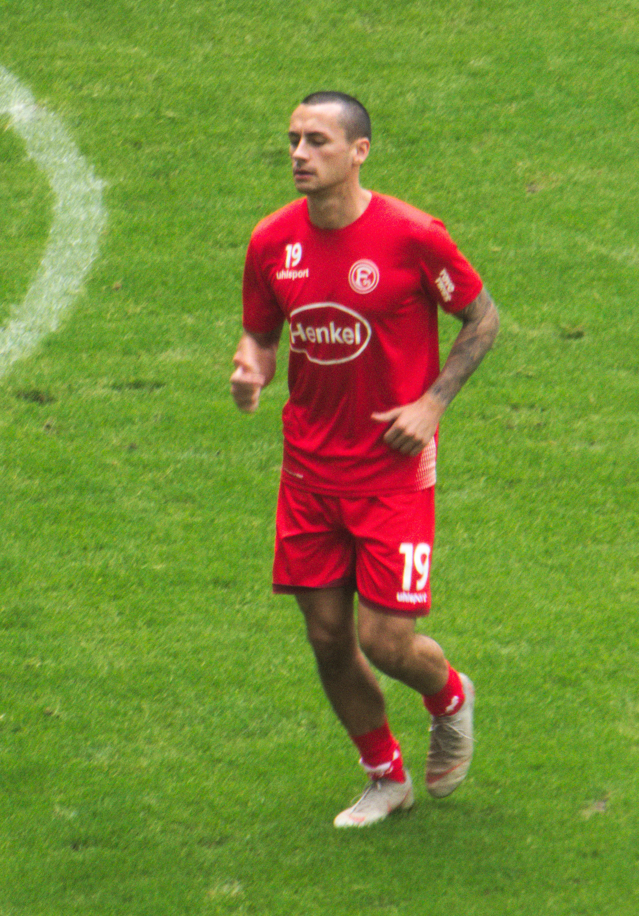 Soccer player Davor Lovren